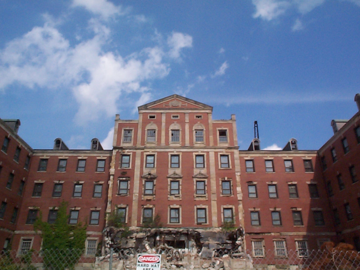 Demolition showcasing the front of the Broadview Developmental Center.